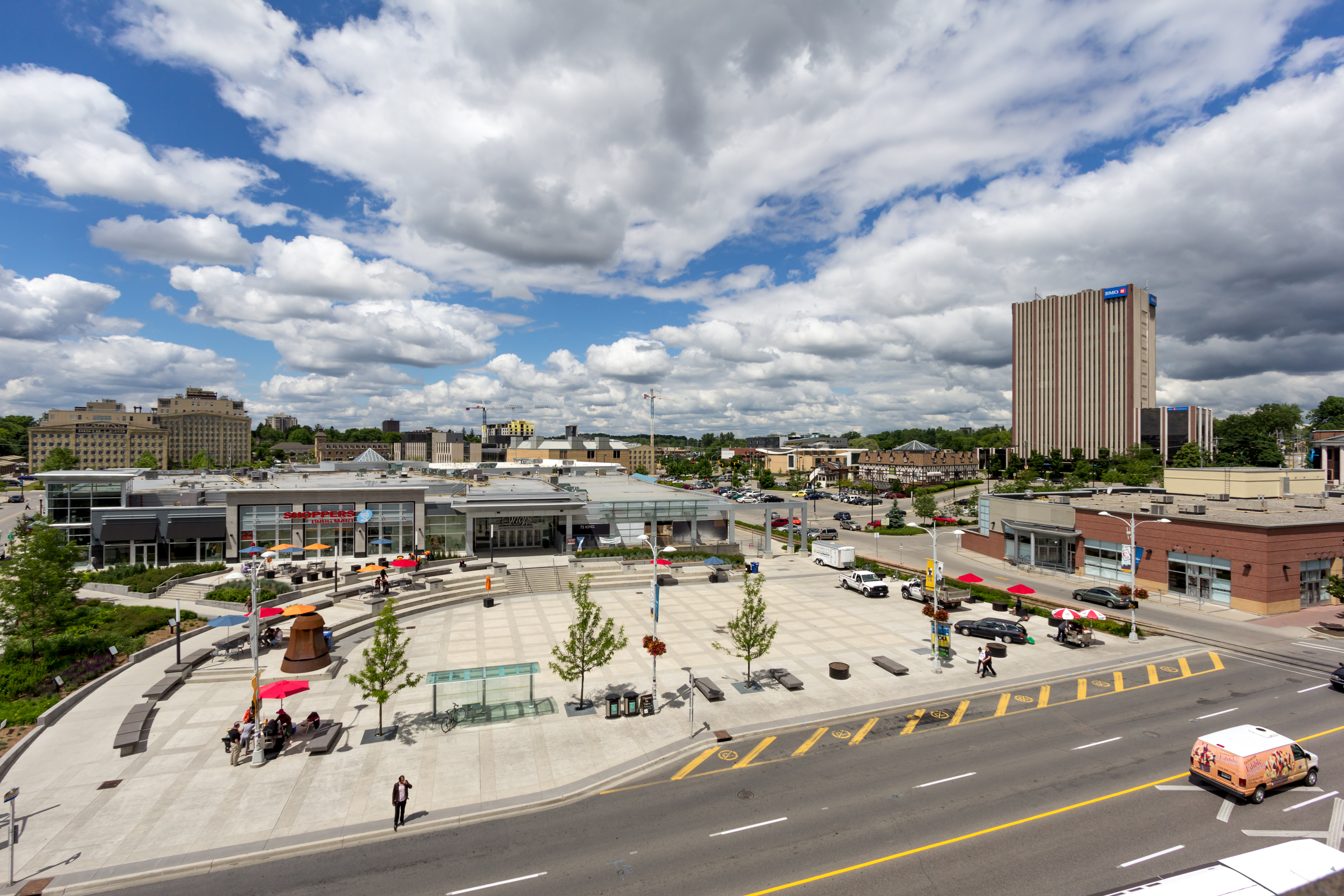 Image of Uptown Waterloo, Ontario, Canada